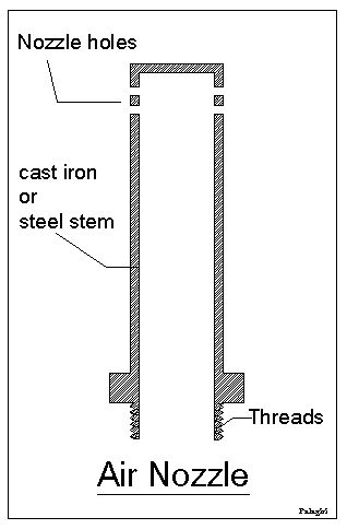 Air nozzle of FBC boiler